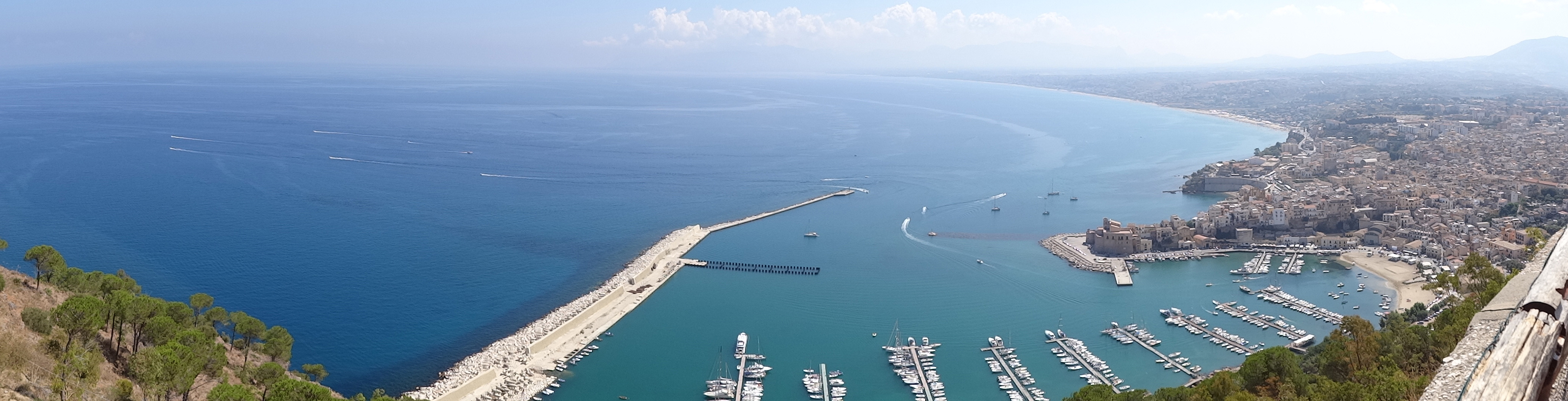 Castellammare del Golfo panorama2013